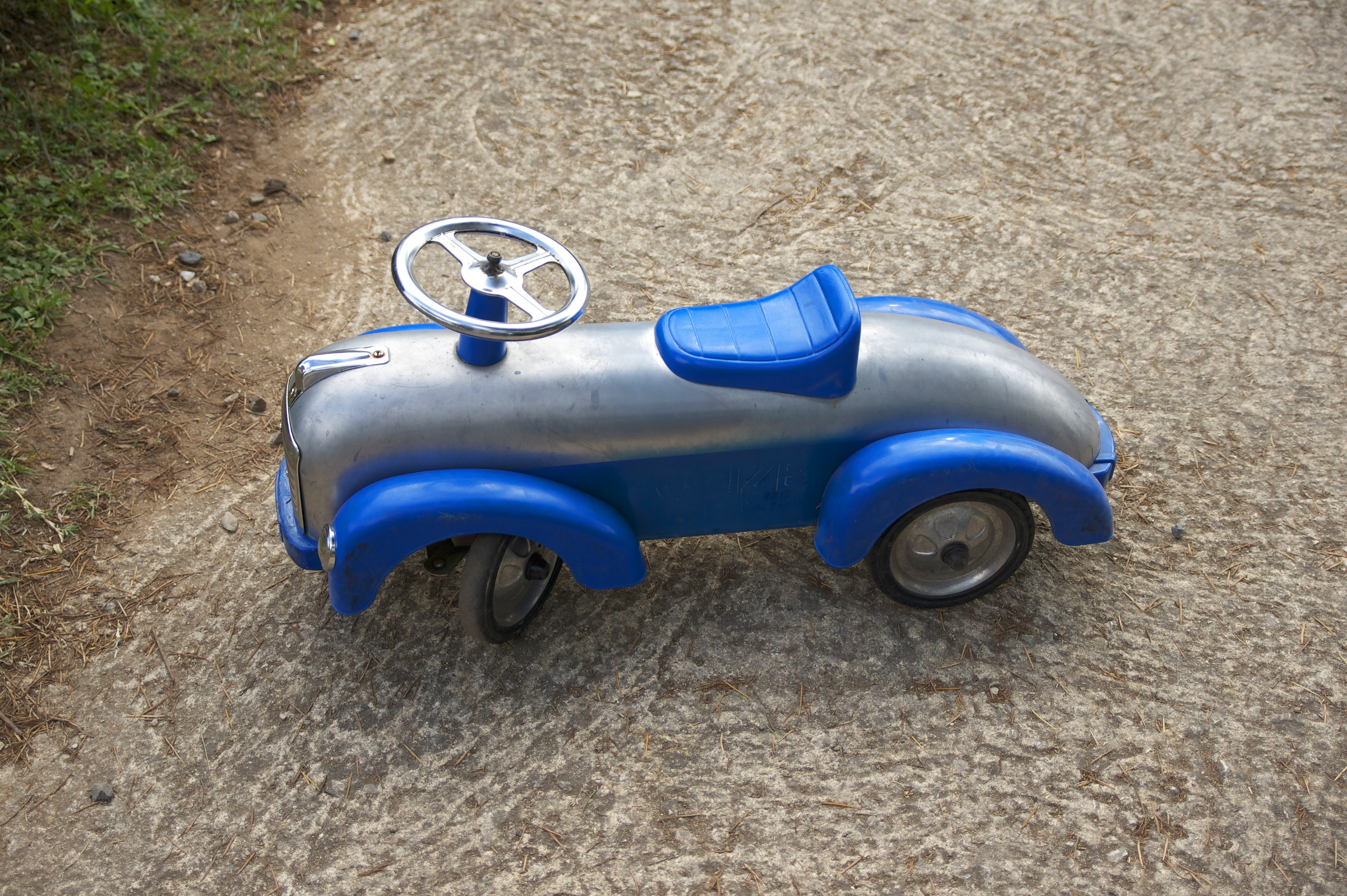 A blue car !